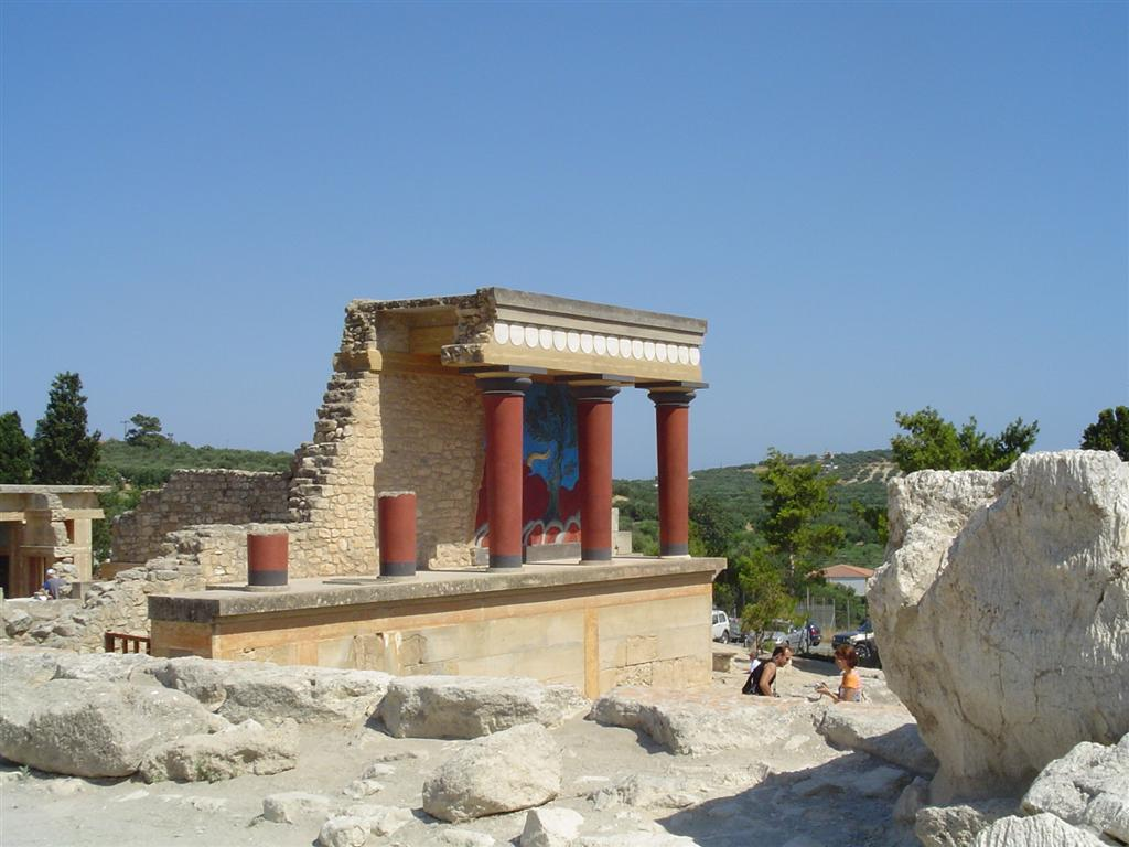 Ruines of Knossos